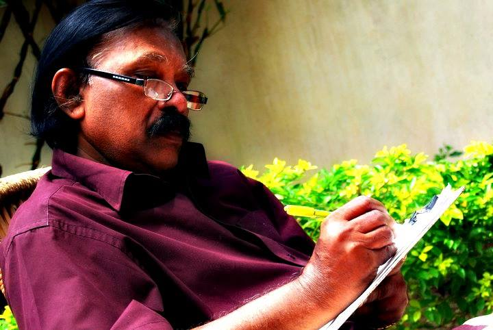 A private photo shoot. Location: Home